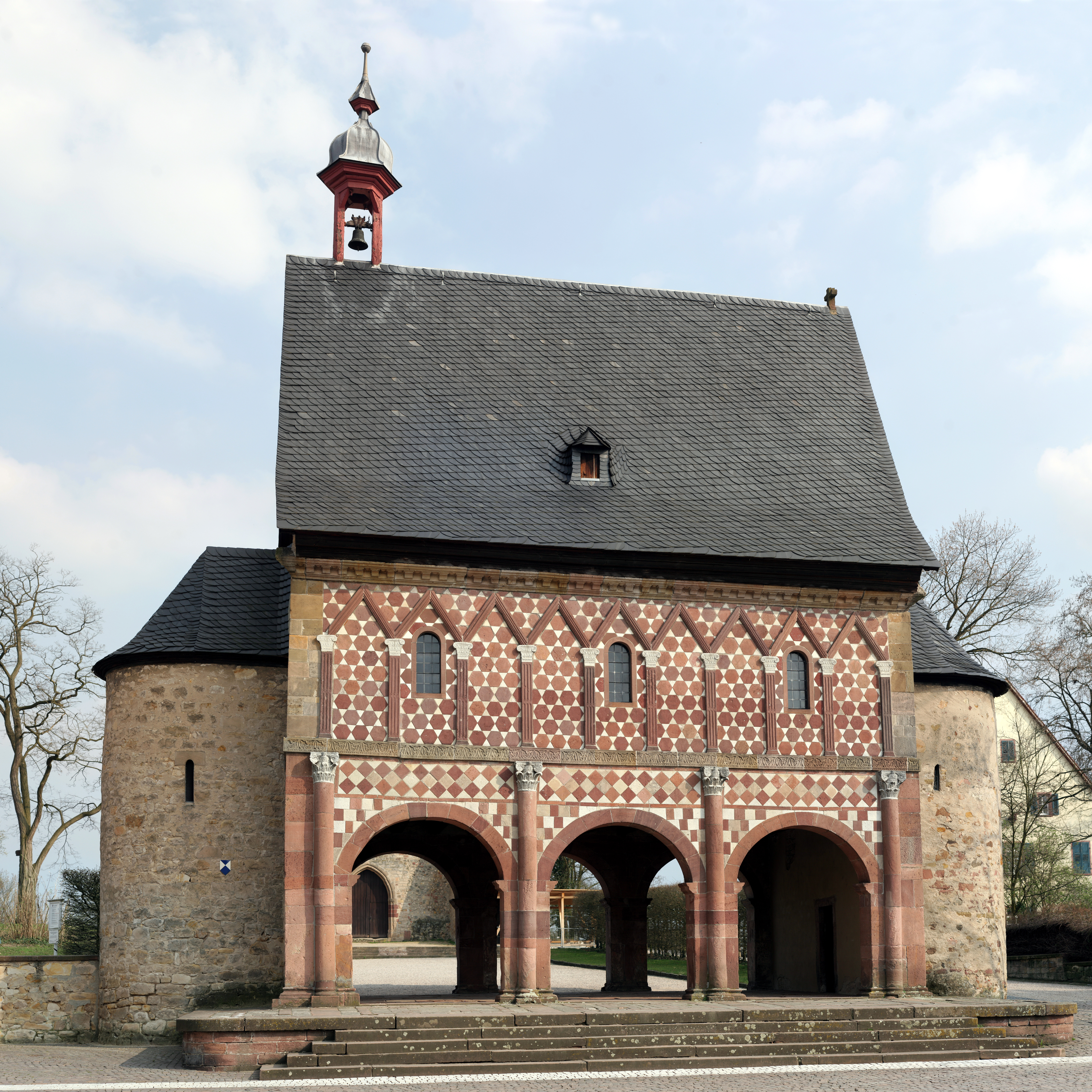 The Königshalle (Kingshall) of Lorsch Abbey